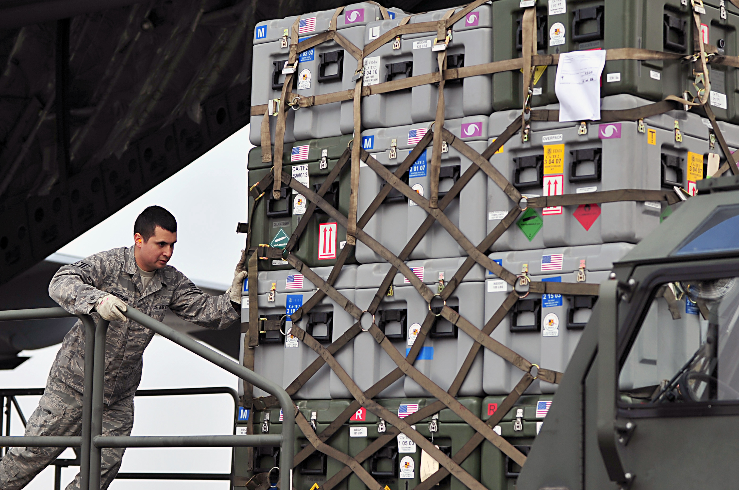 U.S. Air Force Staff Sgt. James Anderson off-loads pallets of humanitarian relief supplies onto a 25K loader on Misawa Air Base, Japan, March 13, 2011.